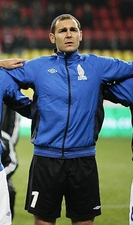 Kamran Agayev playing for Azerbaijan in an 2014 FIFA World Cup qualifier against Russia in Moscow in 2012.